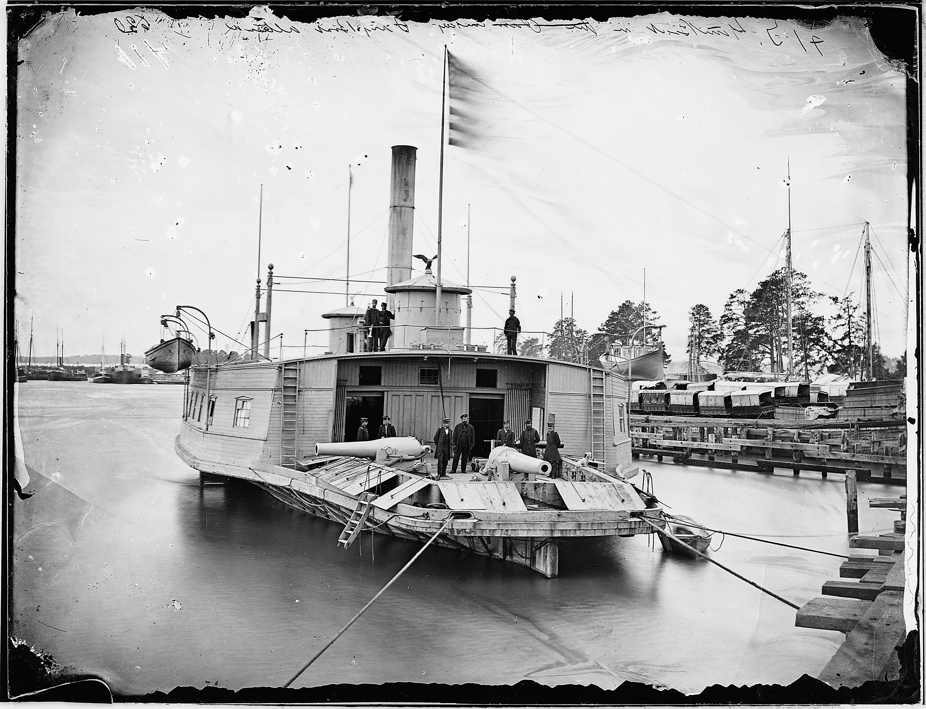 Original Caption: Ferry boat altered to Gunboat, Pamunkey river, Va., 1864-65 U.S. National Archives’ Local Identifier: 111-B-411 From:: Series: Mathew Brady Photographs of Civil War-Era Personalities and Scenes, (Record Group 111) Photographer: Brady, Mathew, 1823 (ca.) - 1896 Coverage Dates: ca. 1860 - ca. 1865 Subjects: American Civil War, 1861-1865 Brady National Photographic Art Gallery (Washington, D.C.) Persistent URL: Repository: Still Picture Records Section, Special Media Archives Services Division (NWCS-S), National Archives at College Park, 8601 Adelphi Road, College Park, MD, 20740-6001. For information about ordering reproductions of photographs held by the Still Picture Unit, visit: Reproductions may be ordered via an independent vendor. NARA maintains a list of vendors at Access Restrictions: Unrestricted Use Restrictions: Unrestricted